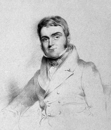 Portrait of Edward Seymour (1796–1866), English physicians.